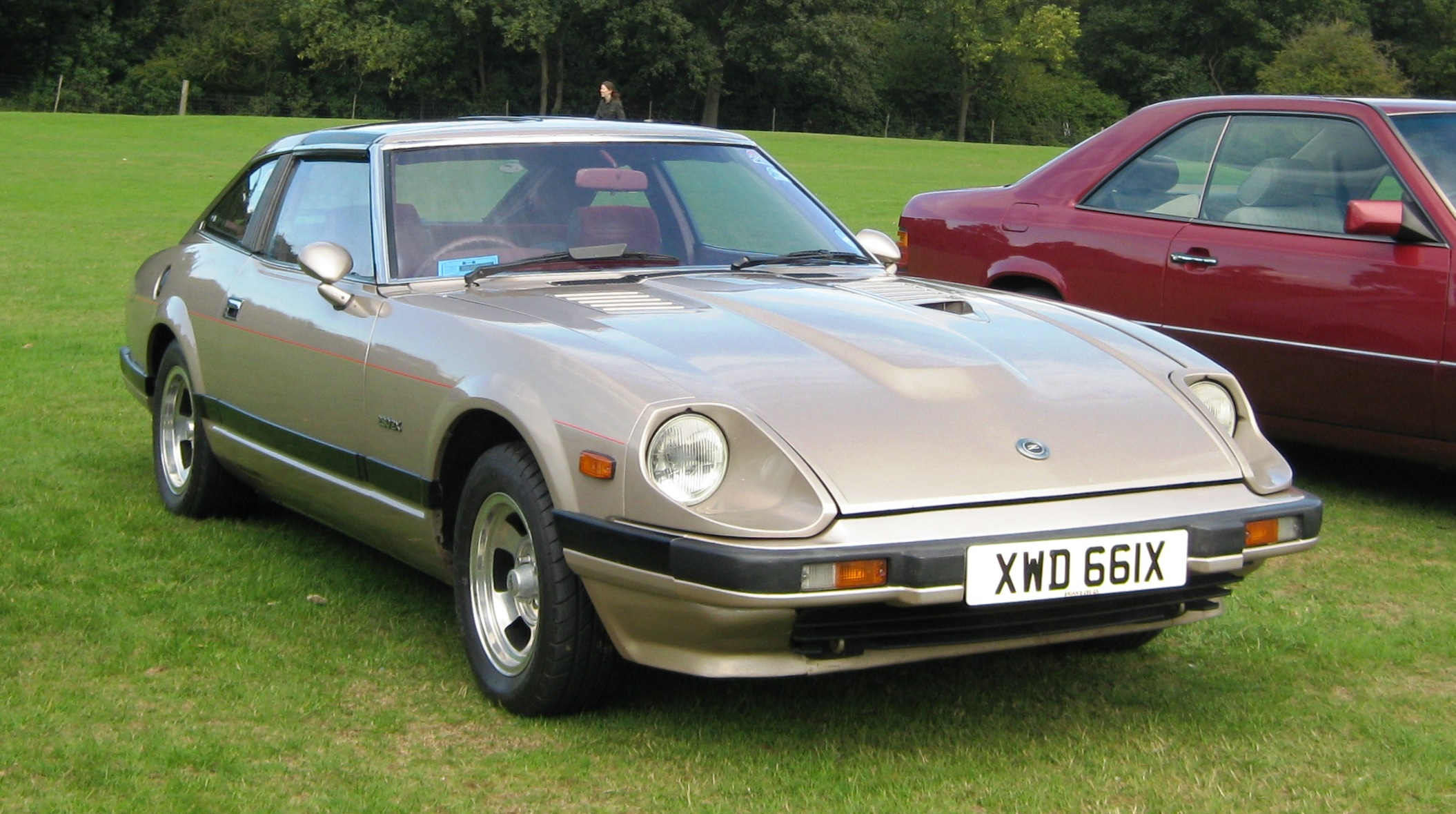 Datsun (as we knew it then, at least here in Europe) 280 ZX.